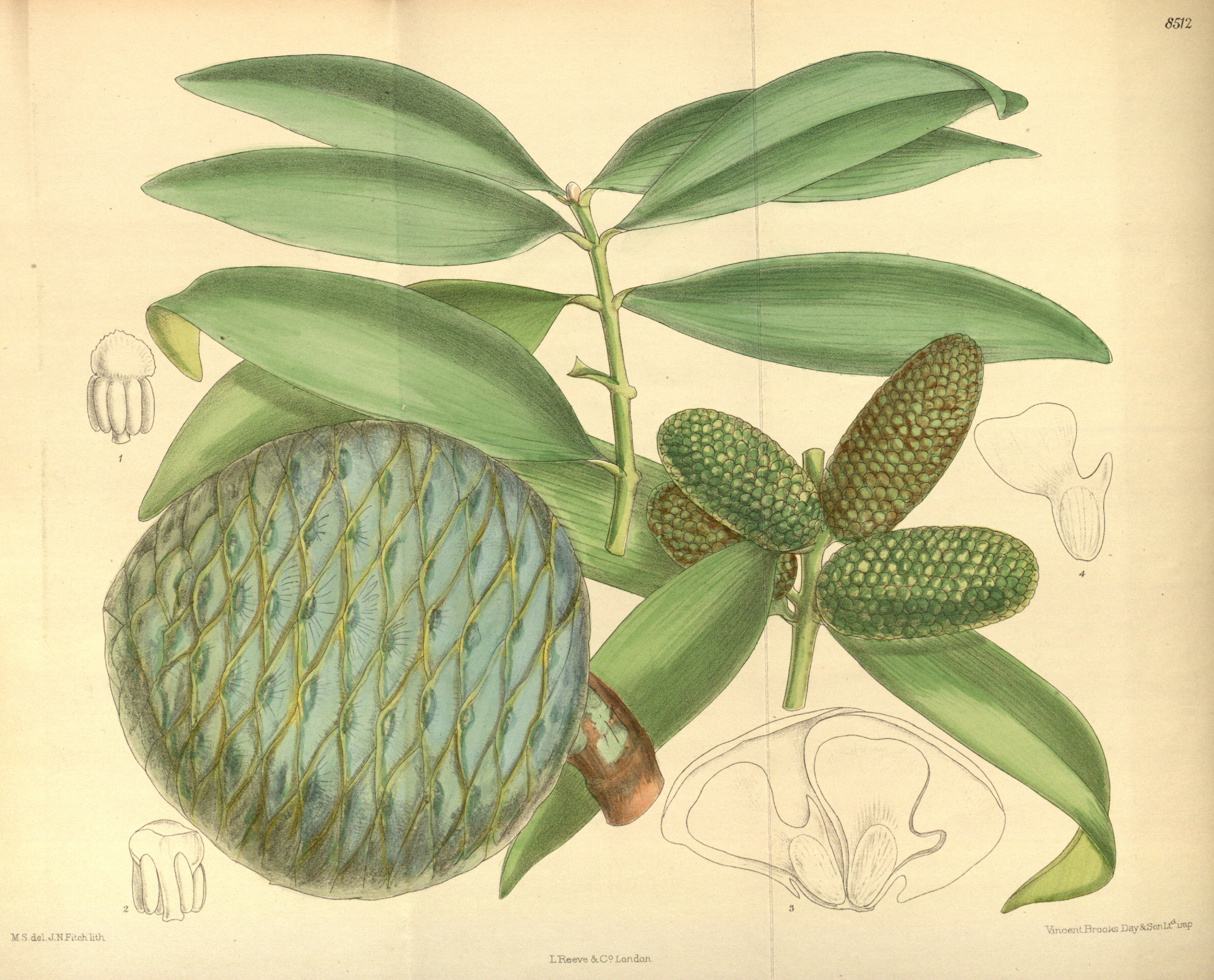 Agathis vitiensis (= Agathis macrophylla), Araucariaceae